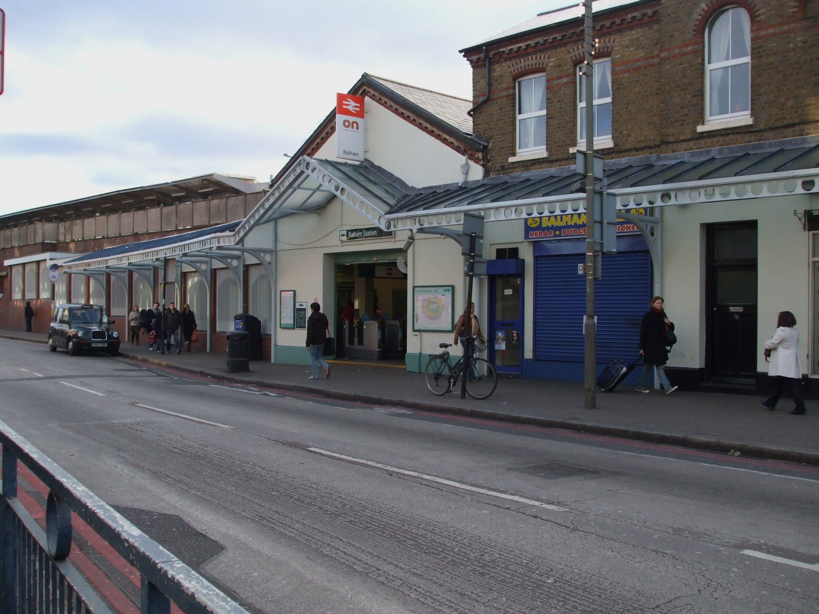 Balham station mainline entrance. There is a direct connection from mainline to tube stations.